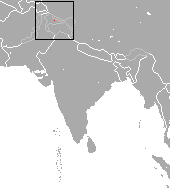 Pale Gray Shrew (Crocidura pergrisea) range